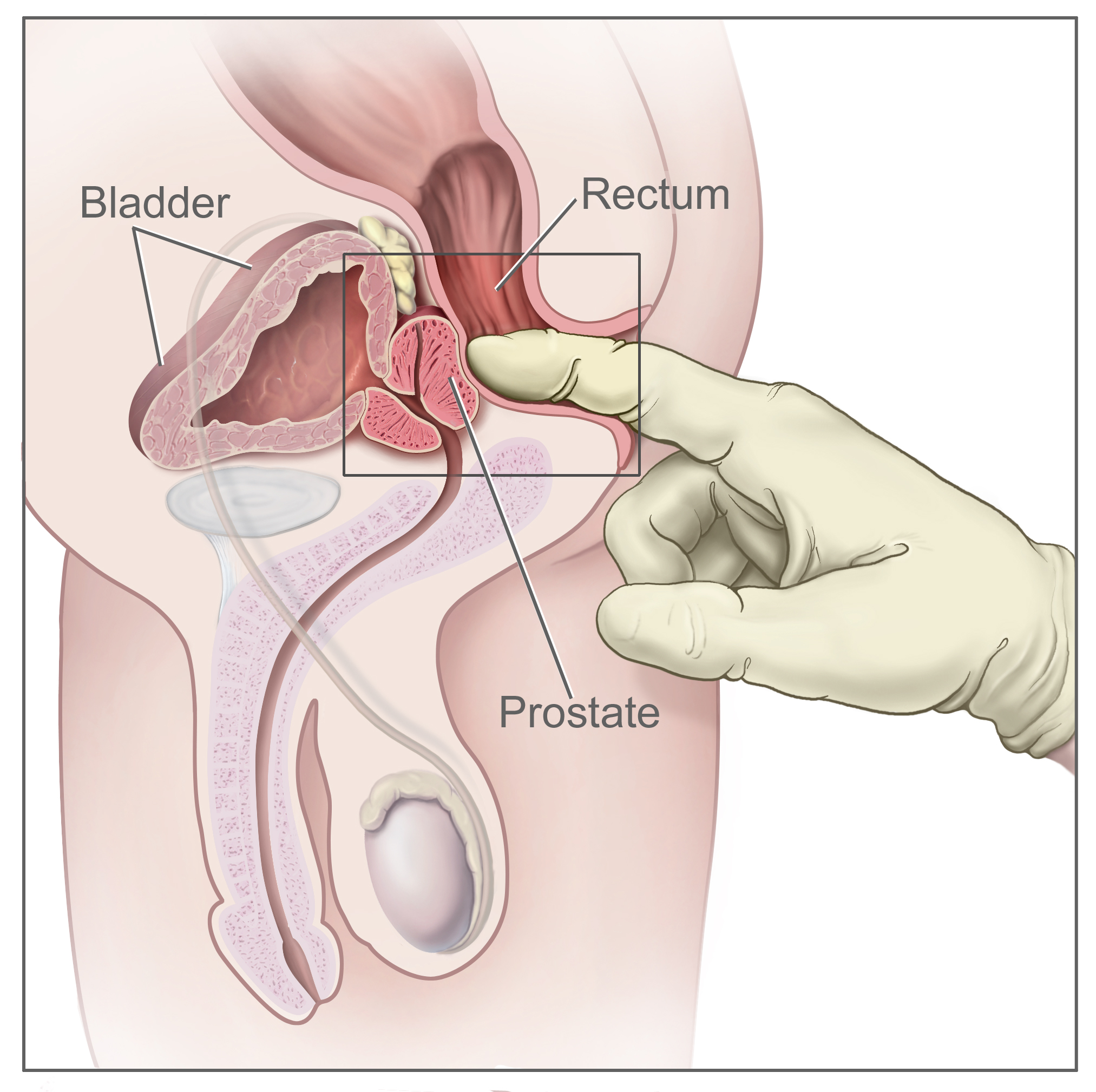 Digital rectal exam; drawing shows a side view of the male reproductive and urinary anatomy, including the prostate, rectum, and bladder; also shows a gloved and lubricated finger inserted into the rectum to feel the prostate.